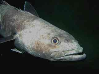 A specimen of Dissostichus mawsoni the Antarctic toothfish (Notothenioidei, Nototheniidae)captured and photographed underwater in McMurdo Sound, Antarctica. This fish was approximately 100 lbs. D. mawsoni is closely related to and resembles D. eleginoides, commonly called the Chilean Sea Bass, and both fishes are probably marketed under that name. Both species may be at risk for overfishing. Photograph by Paul Cziko, supported by US-NSF through the DeVries-Cheng Lab at the University of Illinois, Urbana-Chamnpaign